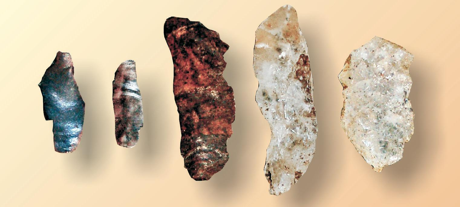 Microblades from Cascade Pass, dorsal and ventral views. The longest is about 3 cm. The two to the right are made from quartz crystal.